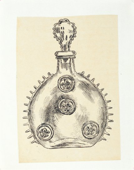 Iconic drawing of LOUIS XIII from 1850 based on a metal flask originally recovered from the site of the Battle of Jarnac (1569). A press image for Louis XIII de Rémy Martin